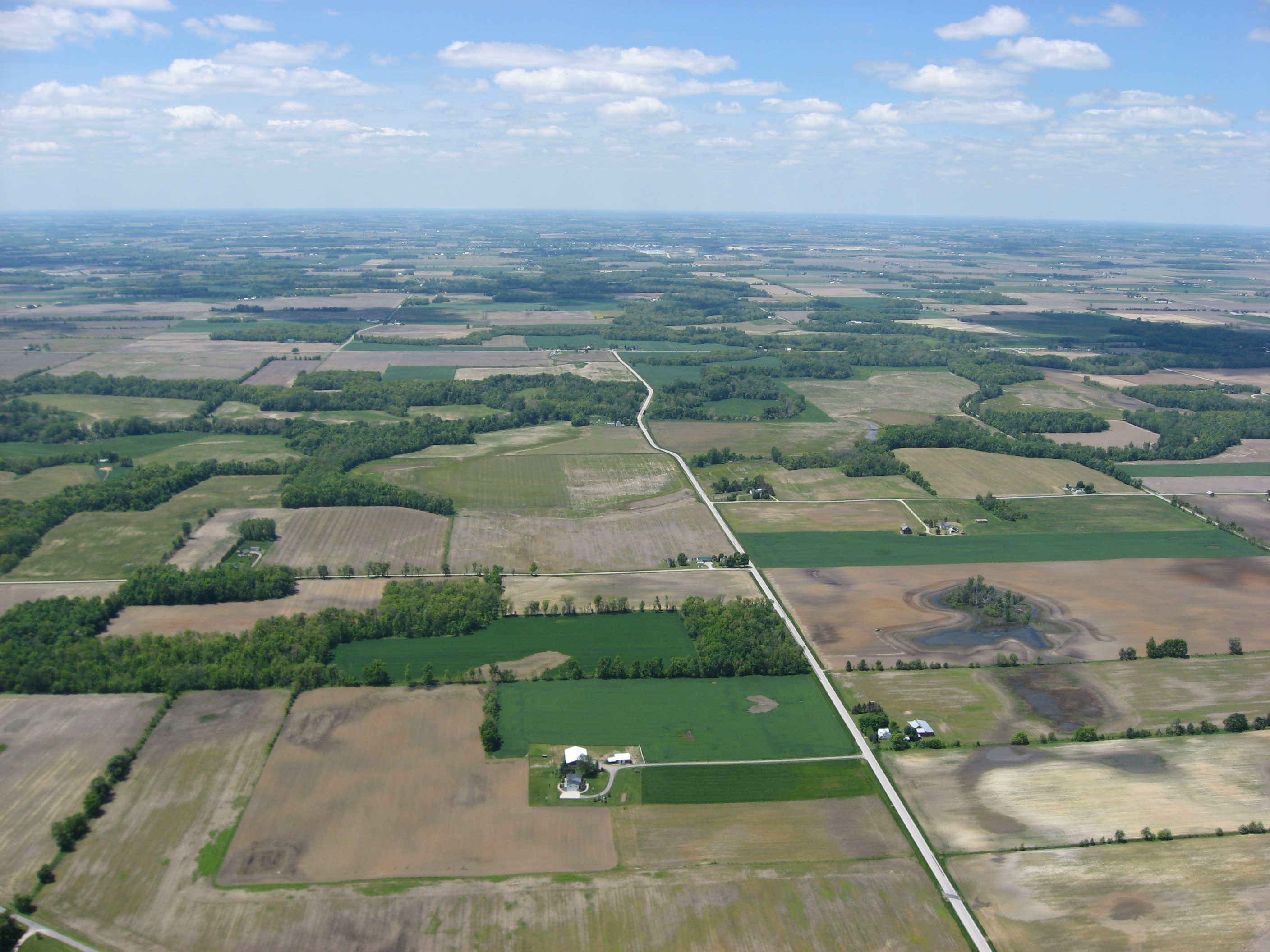 Countryside in central Tymochtee Township, Wyandot County, Ohio, United States. Nearby road with bend is State Route 103, and treeline it crosses in the distance is the upper Sandusky River. Picture taken from a Diamond Eclipse light airplane at an altitude of 2,450 feet MSL and a bearing of approximately 277º.